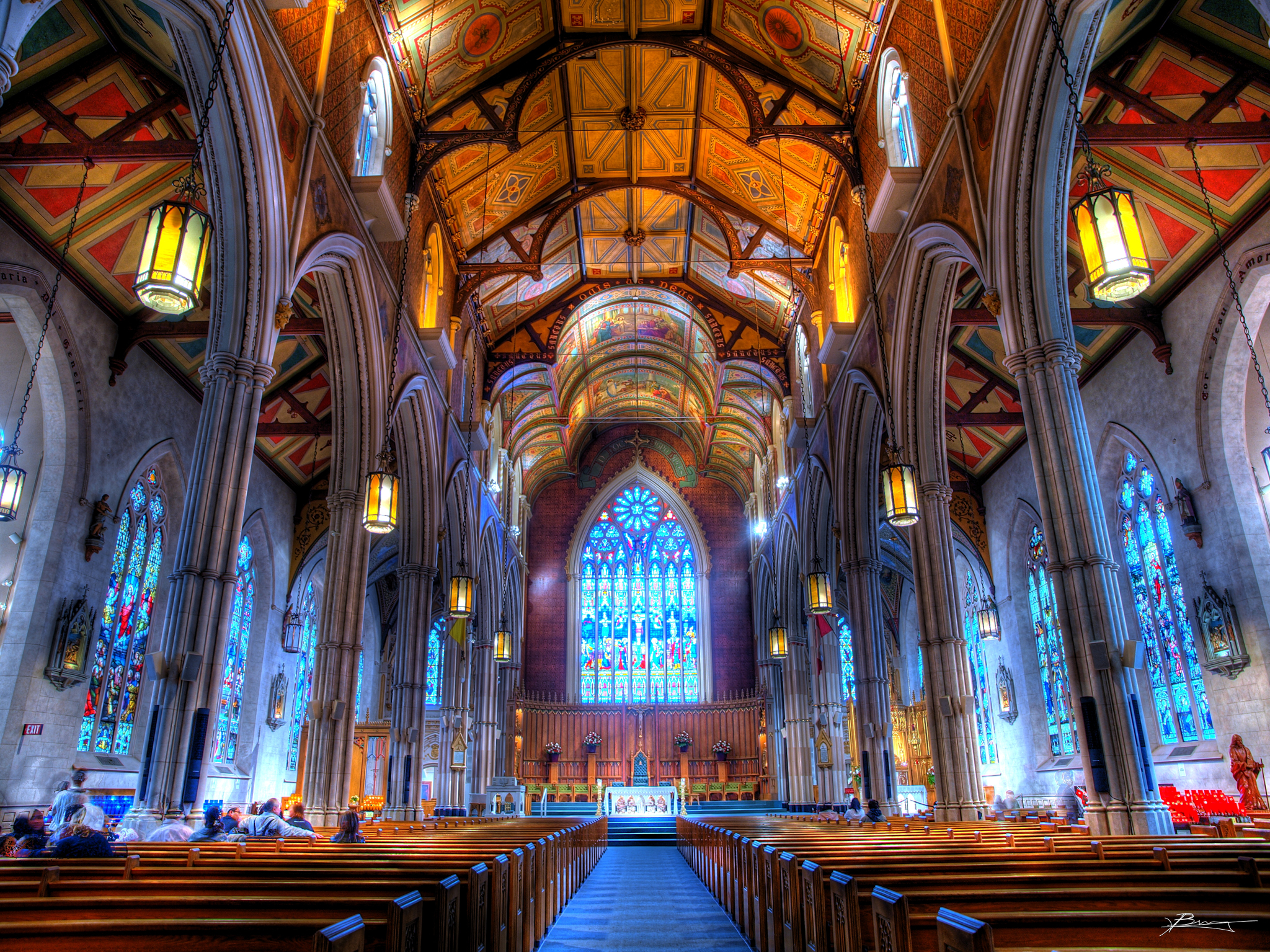 Interior of St. Michael's Cathedral in Toronto's Garden District; Olympus E-3, 14 exp hdr